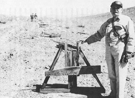 Epsom Salts Monorail: wooden supports in Wingate Pass